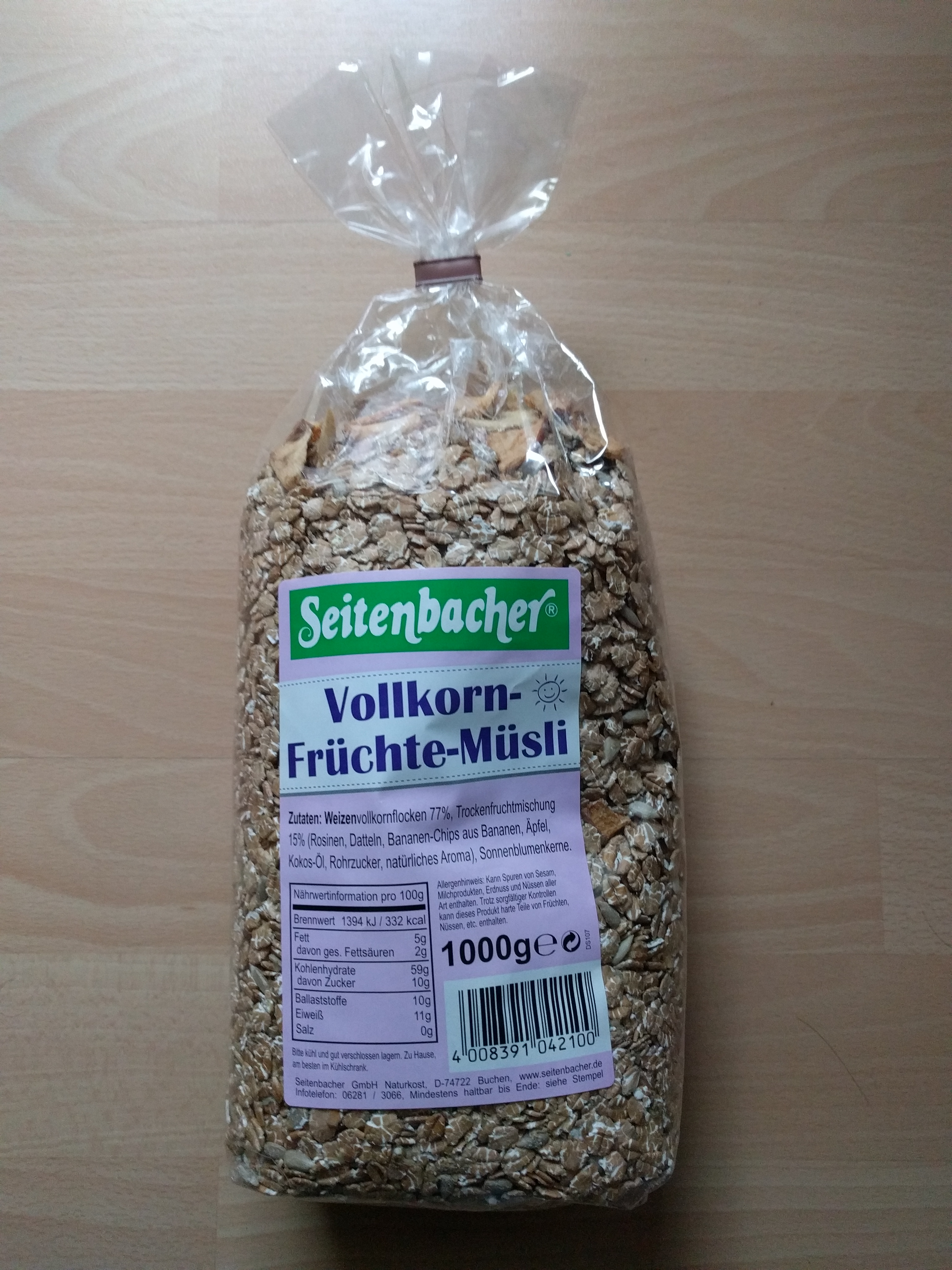 muesli of the company Seitenbacher